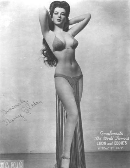 Pin-up photo of Sherry Britton for the Dec. 9, 1945 (Continental Edition) issue of Yank, the Army Weekly, a weekly U.S. Army magazine fully staffed by enlisted men.